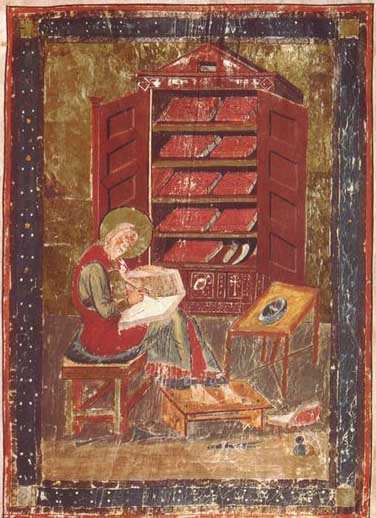 Detalle de Folio 5r from the Codex Amiatinus (Florence, Biblioteca Medicea Laurenziana, MS Amiatinus 1), Ezra the scribe.